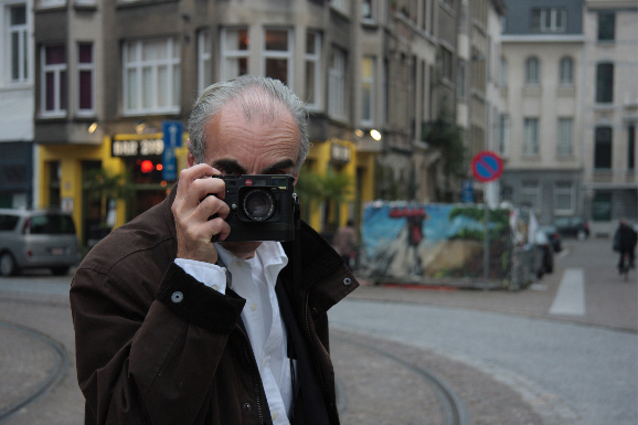 The belgian photographer Benjamin Katz.